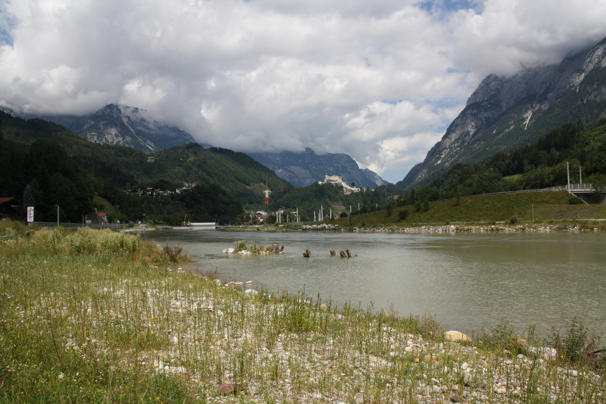 river Salzach with mountains Hagengebirge, castle Hohenwerfen and mountains Tennengebirge in the background